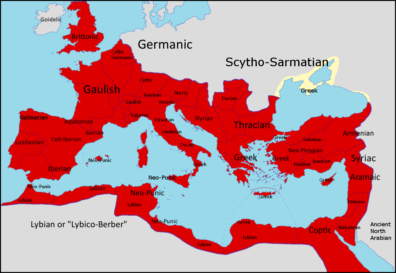 Provincial Languages of the Roman Empire circa 150 CE